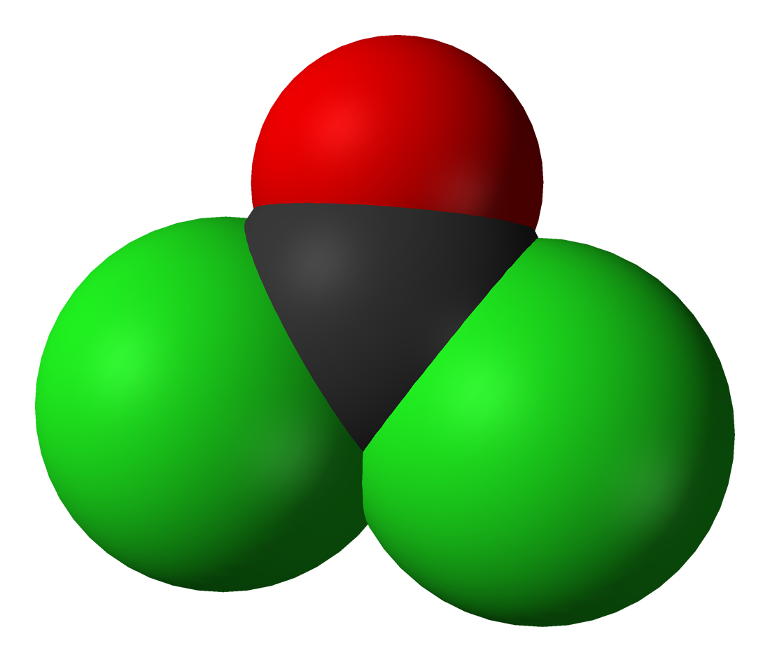 Space-filling model of phosgene, COCl2